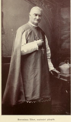 Portrait of bishop Boromisza Tibor